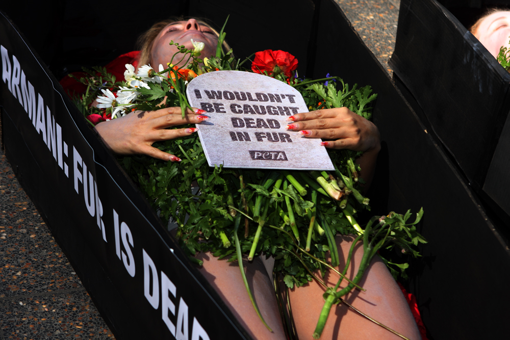 PETA 'Fur Is Dead' coffin stunt aimed at Armani, Bondi Junction, Sydney.